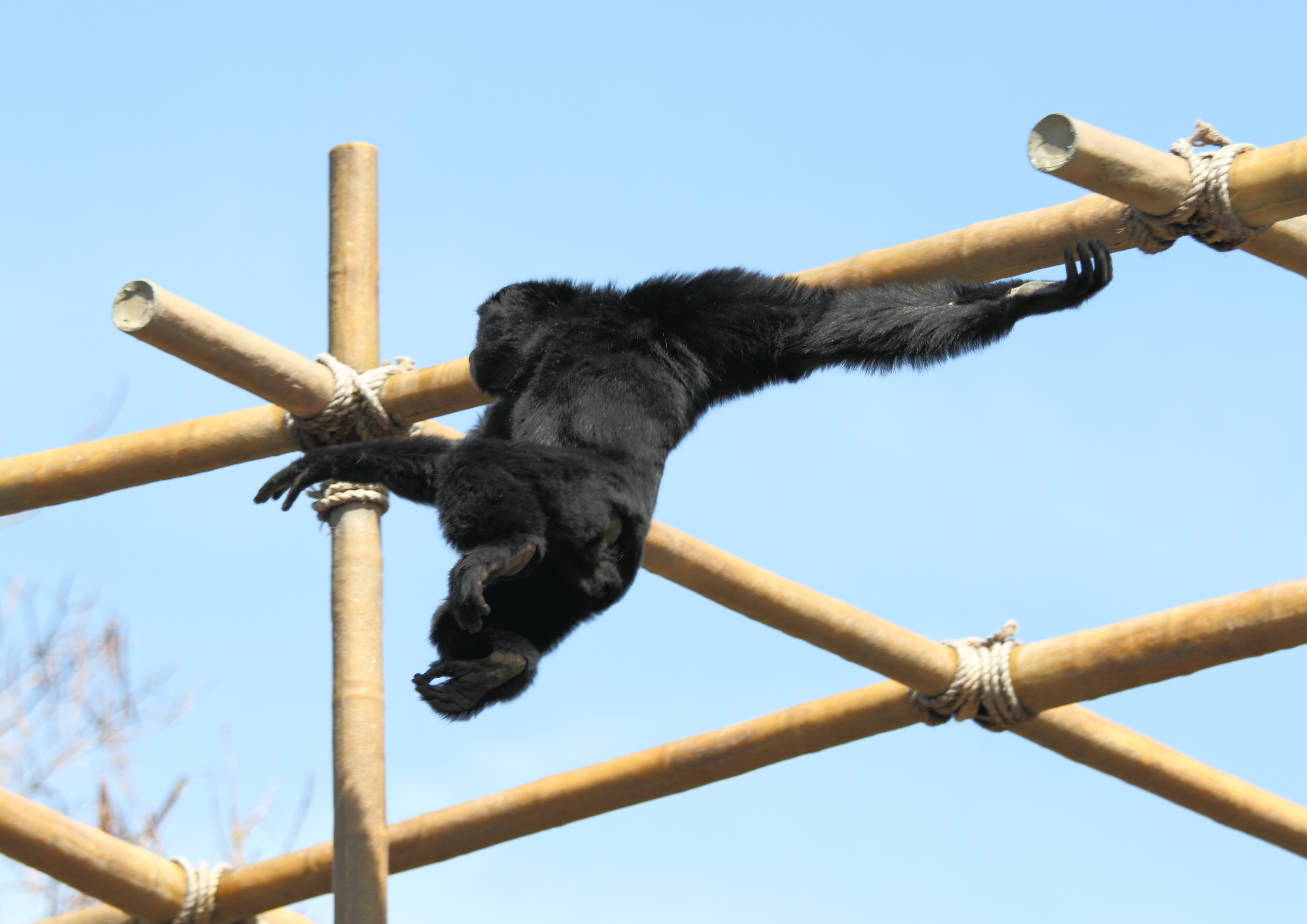 Brachiating Siamang at the Cincinnati Zoo